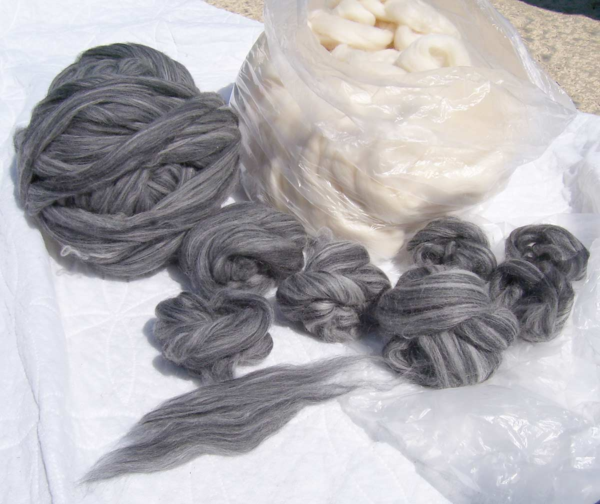 I took this photo of wool roving for hand spinning into wool yarn